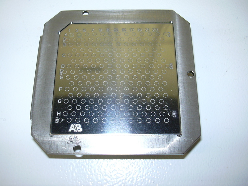 Sample target for matrix-assisted laser desorption ionization mass spectrometry